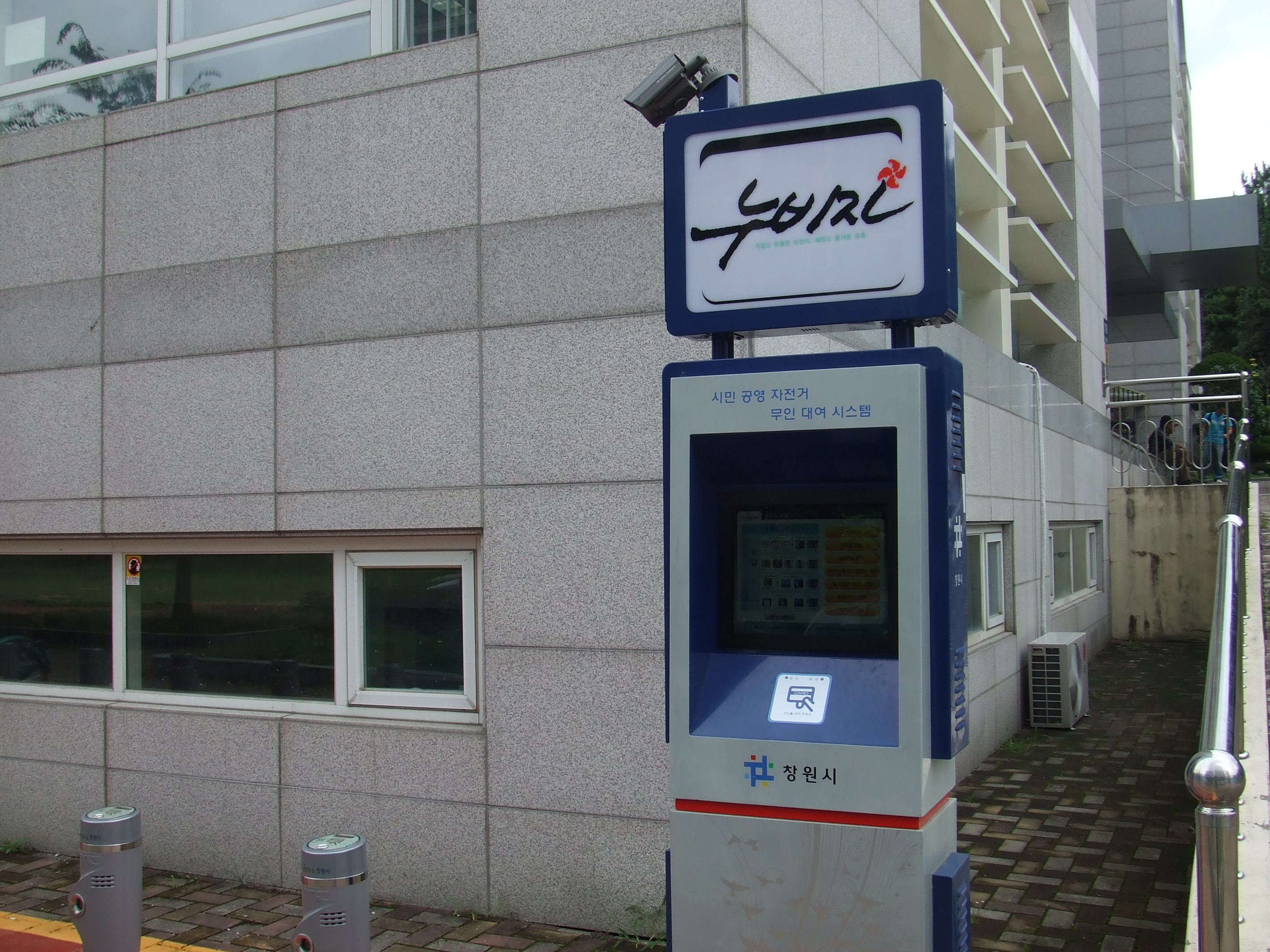 A kiosk at NUBIJA Station.